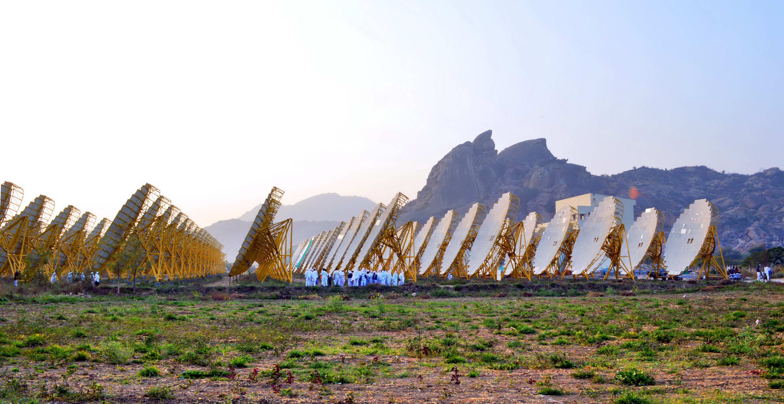 India One Solar Thermal Power Plant These photos were taken while construction. Situated at: Aburoad, Rajasthan, India Website